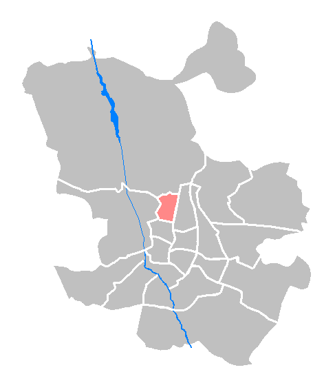 Locator maps of districts in Madrid: Maps - ES - Madrid - Tetuan.PNG